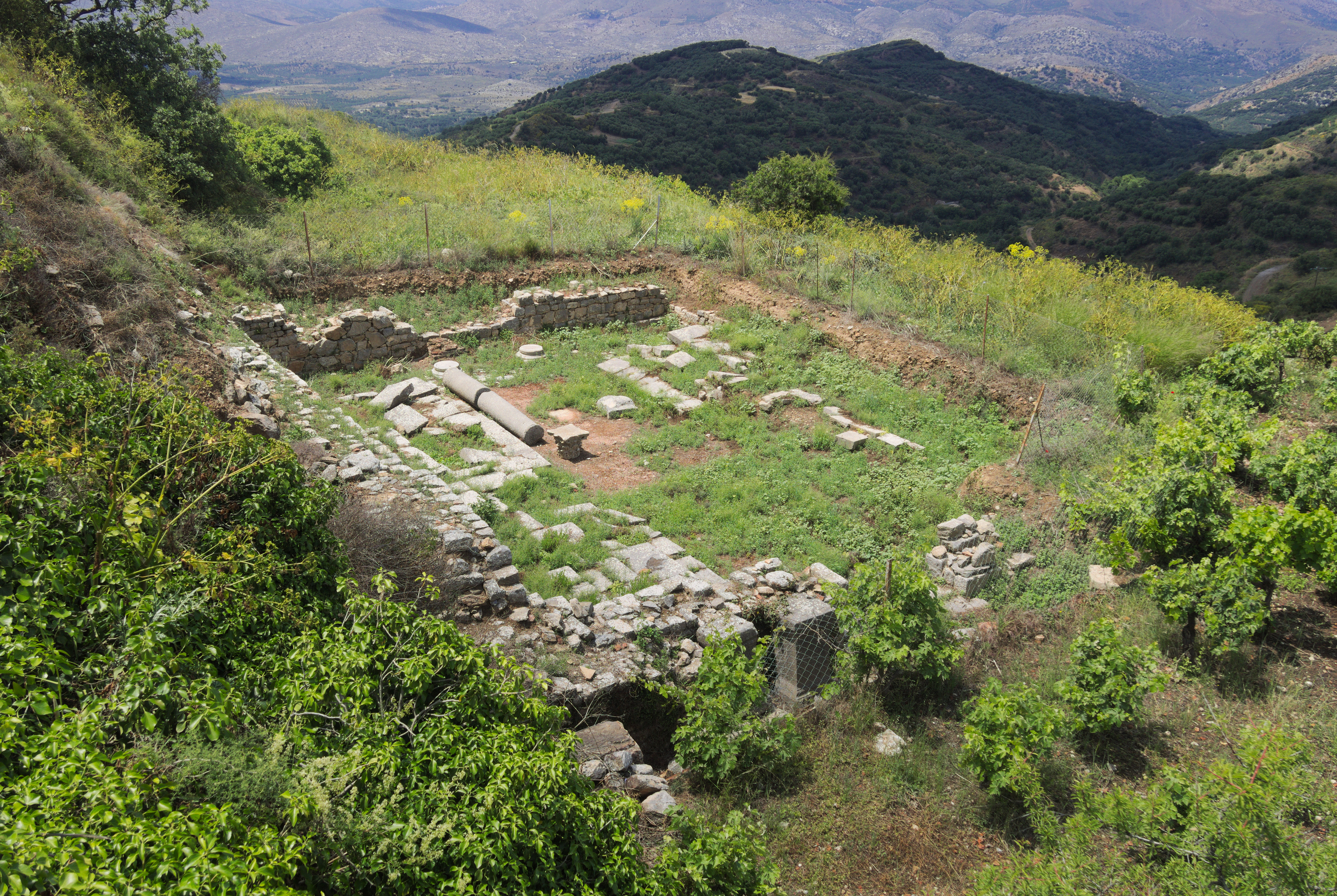 The vouleuterion of ancient Lyttos.